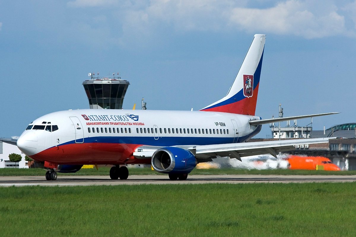 Boeing 737-300 at Brno airport